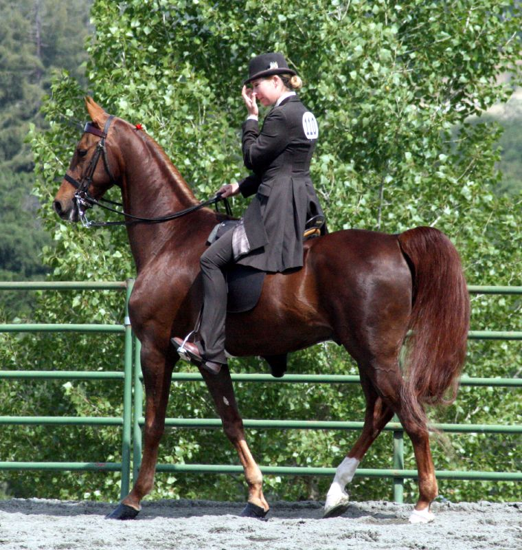 American Saddlebred